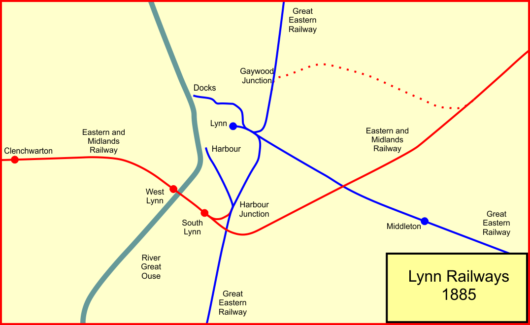 Railway lines near King's Lynn, England, in 1885